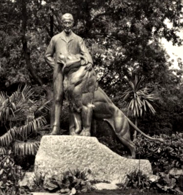 Statue in Hamburg-Stellingen depicting Carl Hagenbeck (German zoo-director, 1844–1913) and his lion Triest. The statue was created by the German sculptor Rudolf Marcuse (1878–1940).